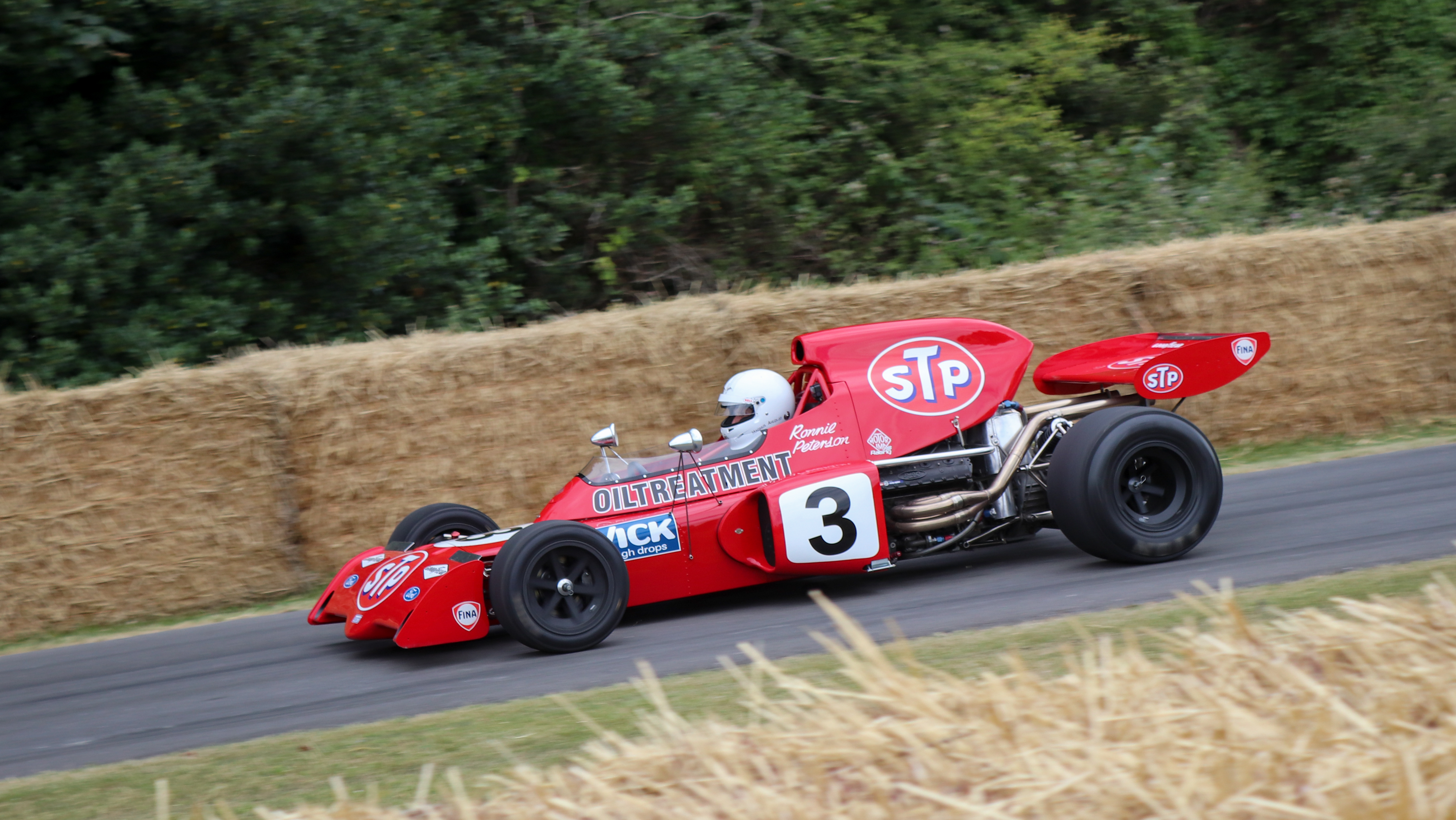 Ronnie Peterson March 721X Goodwood Festival of Speed 2019.